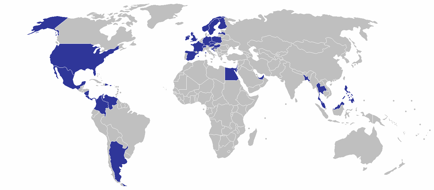 Cemex world locations